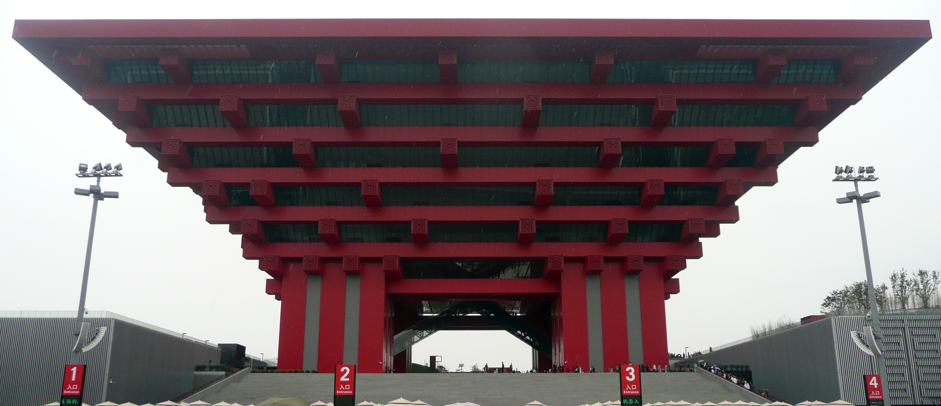 China Pavilion at Expo 2010 in Shanghai